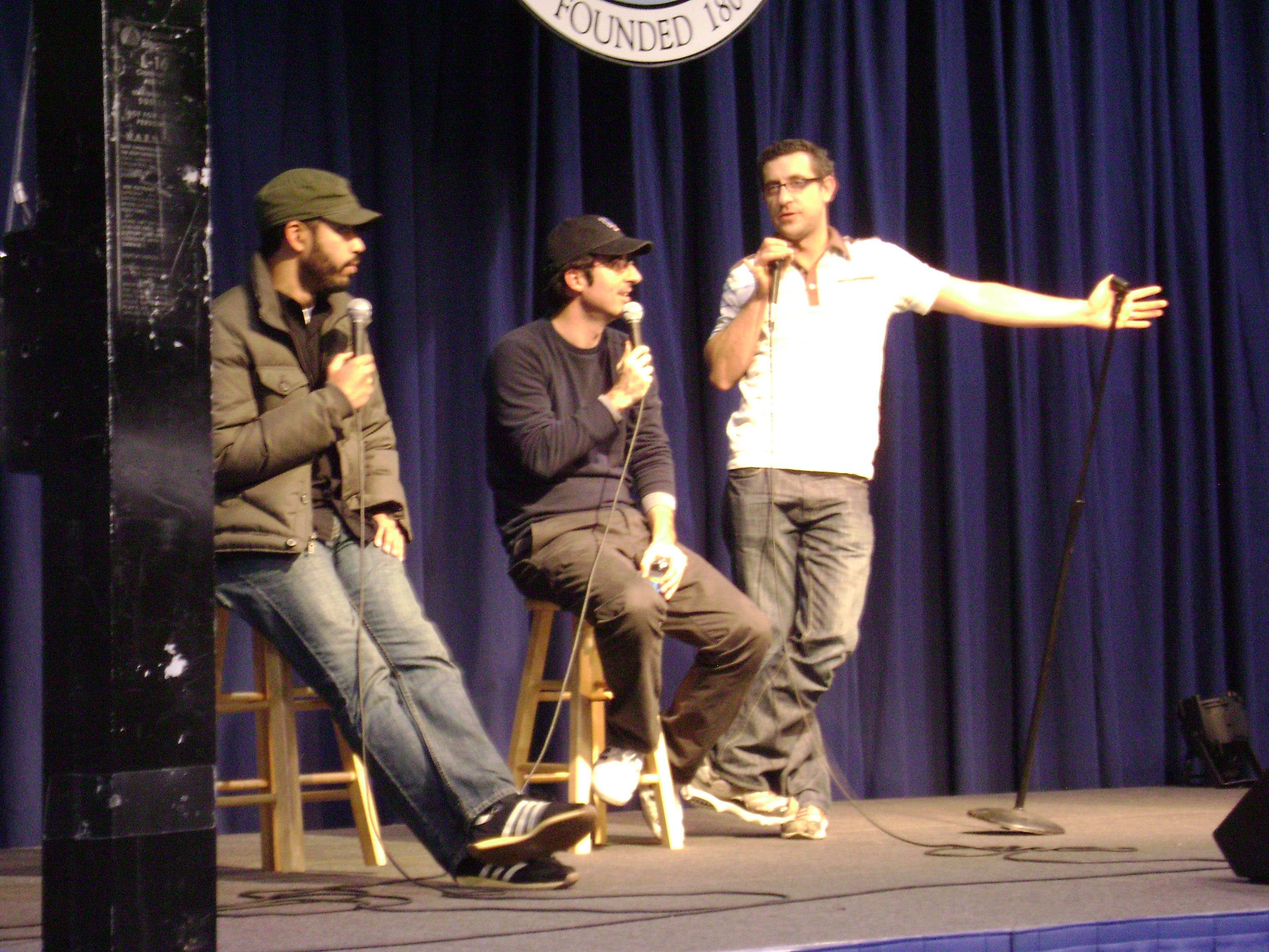 Wyatt Cenac, John Oliver and Rory Albanese after performing stand-up comedy at Moravian College in Bethlehem, Pennsylvania